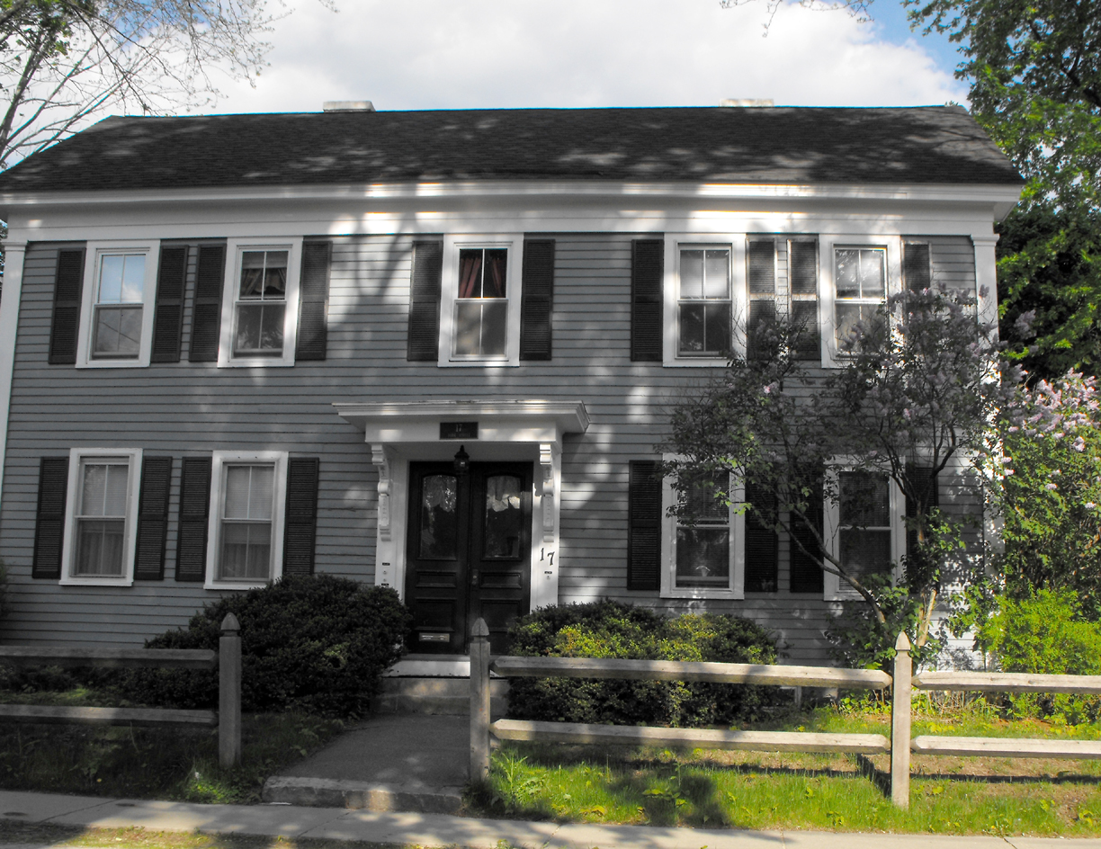 House at 15-19 Park St. (also known as the Henry Preston House), Methuen, MA